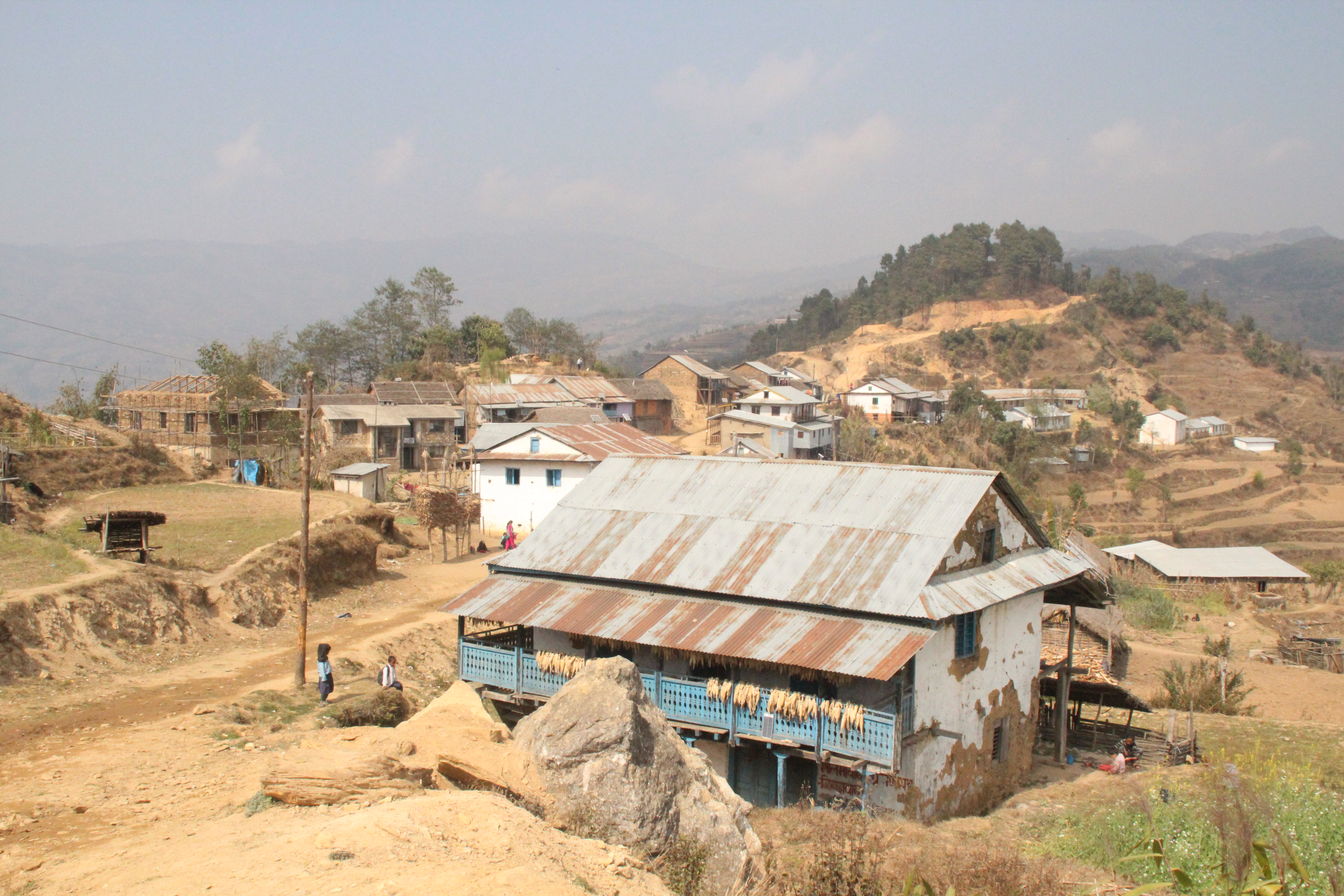 shot taken from Ramu house